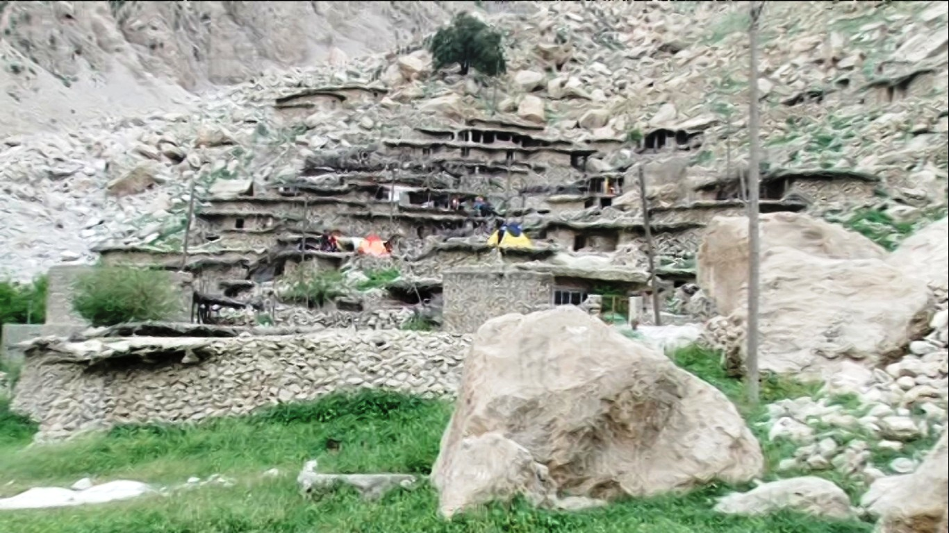 Nimdoor village structures